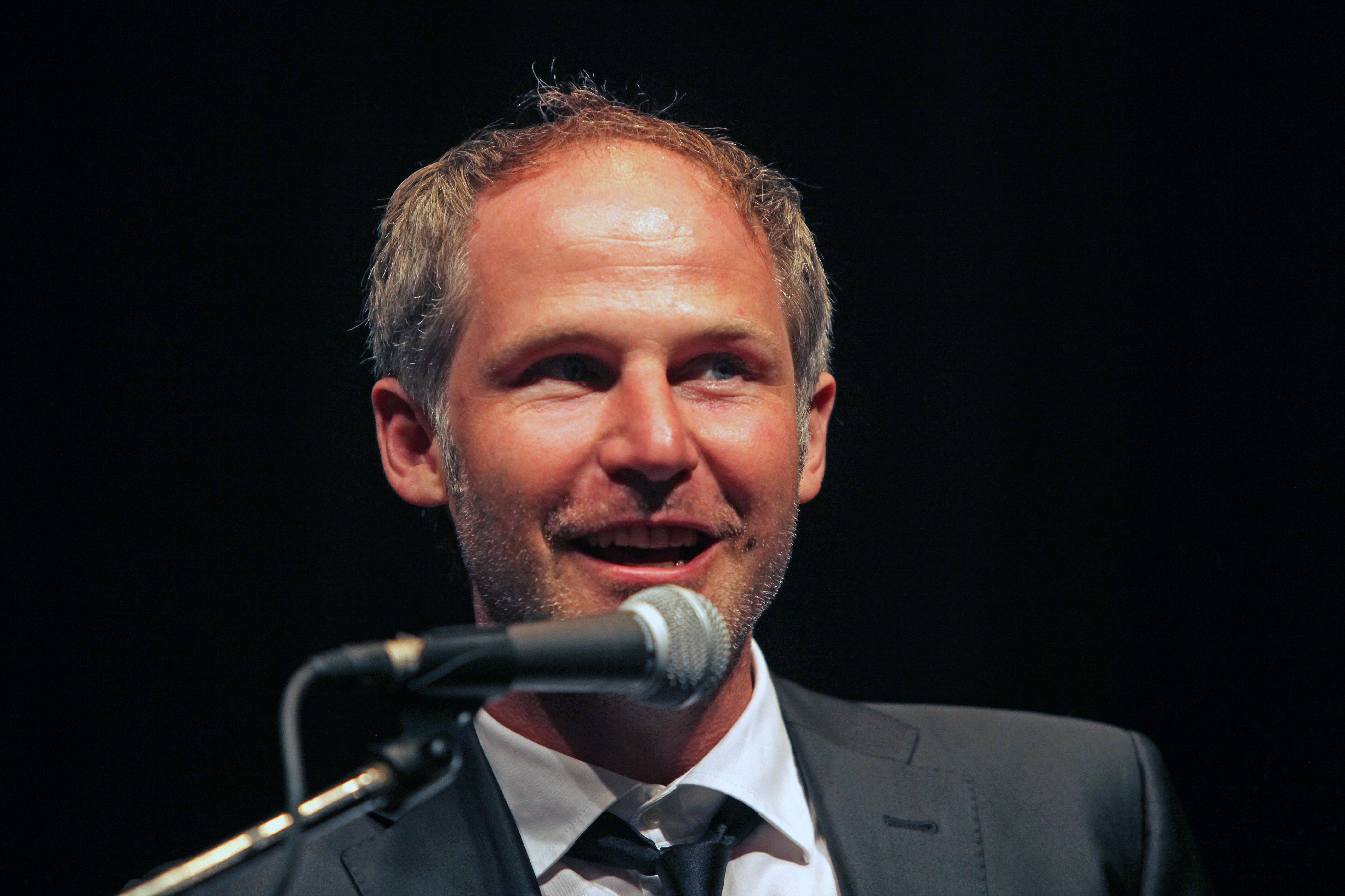 Czech film director Jan Prušinovský at the Karlovy Vary International Film Festival on 7 July 2015. He presented there his competition entry "Kobry a užovky" ("Snake Brothers").